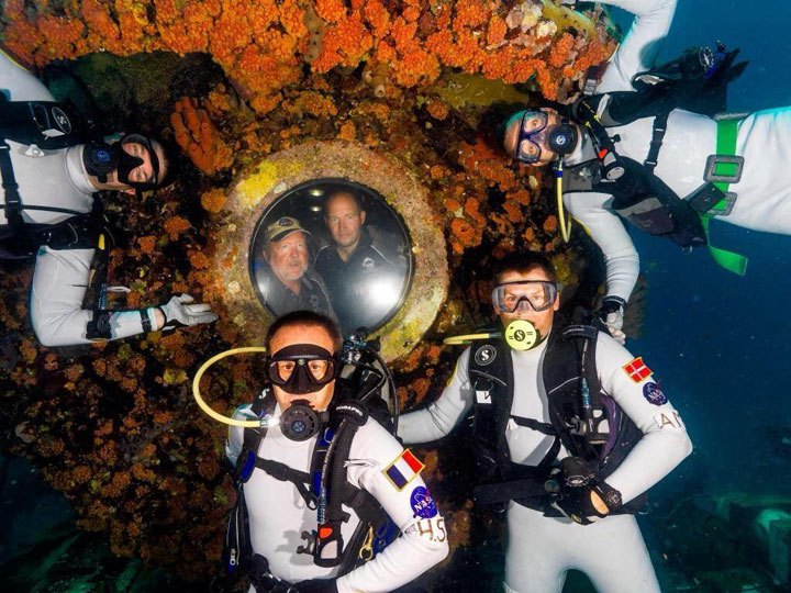 The NEEMO19 crew. From left to right: Jeremy Hansen, Canadian Space Agency; Hervé Stevenin and Andreas Mogensen, European Space Agency; Randy Bresnik, NASA.